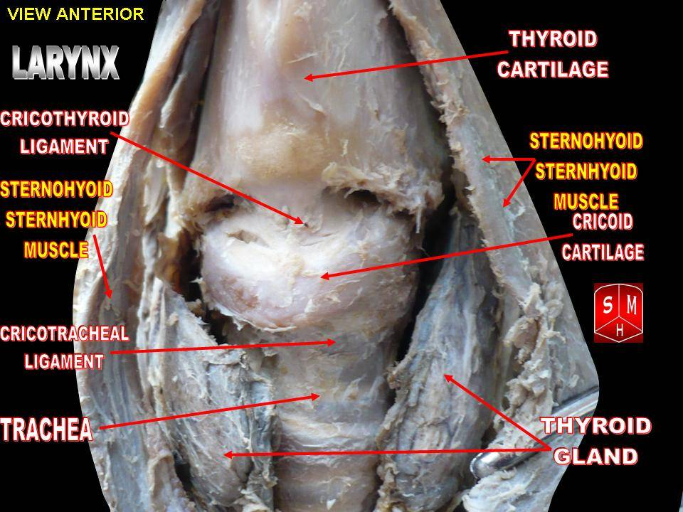 Larynx